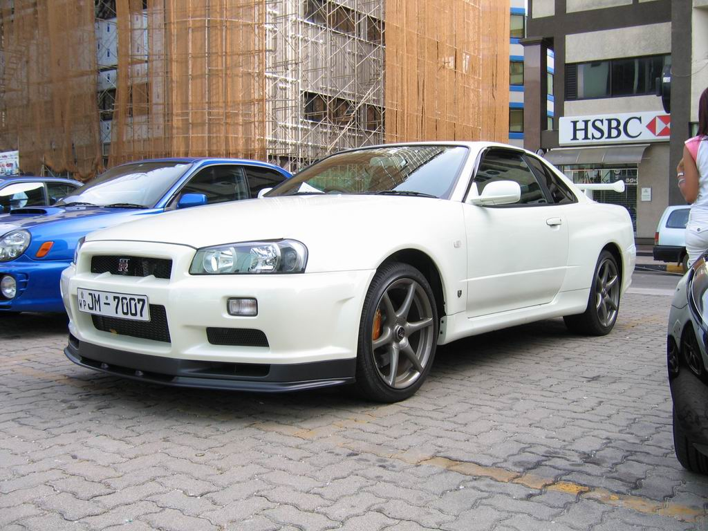 Nissan Skyline (R34) GT-R M Spec Nur photographed at a car enthusiasts meet in Colombo, Sri Lanka. Photographed by me on the 14th